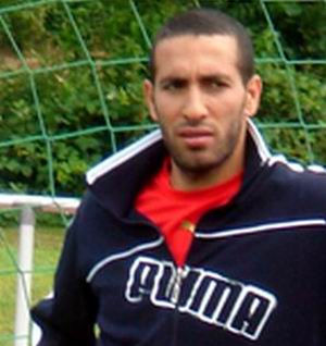 Mohamed Abotrika